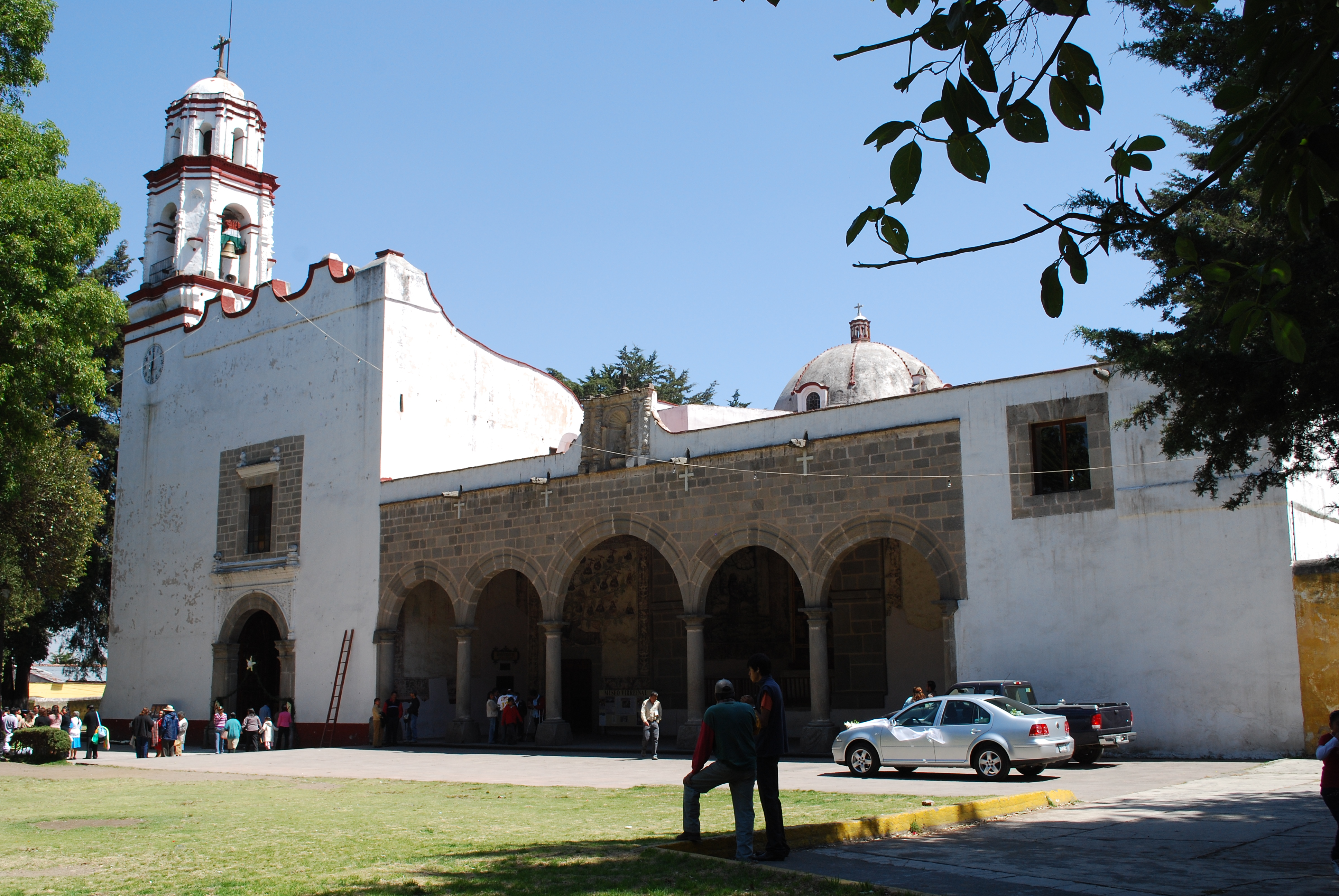 Ex Franciscan monastery which is now the town church and the state Viceregal Museum in Zinacantepec, Mexico State